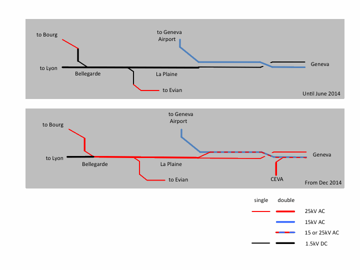 upgrade project for Geneva to bellegarde railway line